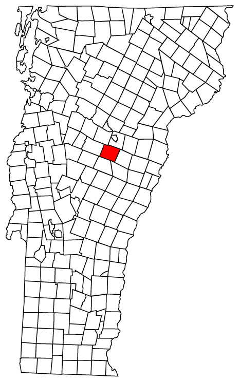 Map of Vermont towns with Williamstown highlighted